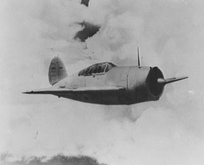 A Brewster F2A-1 Buffalo in flight. Of 54 F2A-1 produced only 11 served with a U.S. Navy, 10 equipping fighter squadron VF-3 aboard the aircraft carrier USS Saratoga (CV-3) in June 1940 (aircraft BuNos 1386-1396). The remainder was sold to Finland. Original text: "The Brewster "Buffalo" (F2A-1) Navy fighter is a favorite with many American Air Force and Royal Air Force pilots. This plane, which is usually based on a carrier, is exceedingly maneuverable and capable of excellent performance at high altitudes. Powered by a 1,000 horsepower Wright cyclone engine it has a top speed of about 330 miles per hour, a range of 1,000 miles and a ceiling of approximately 35,000 feet."